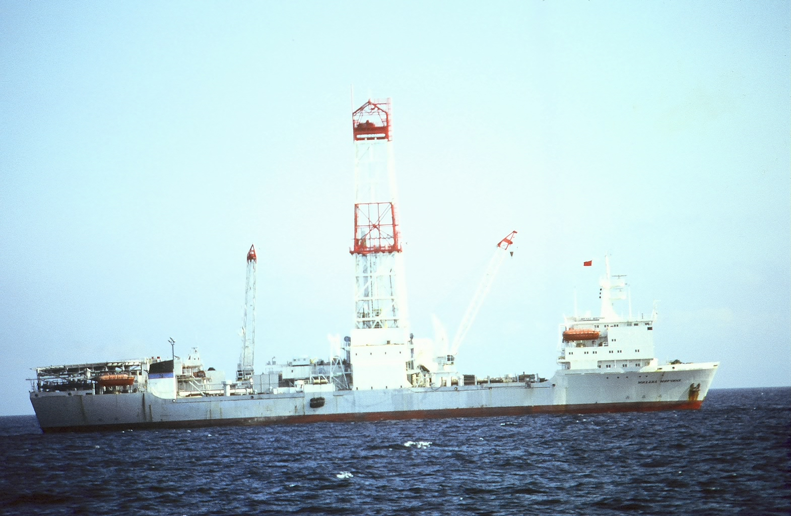 Soviet ship in search for KAL 007. Only photo available of this ship in operation.